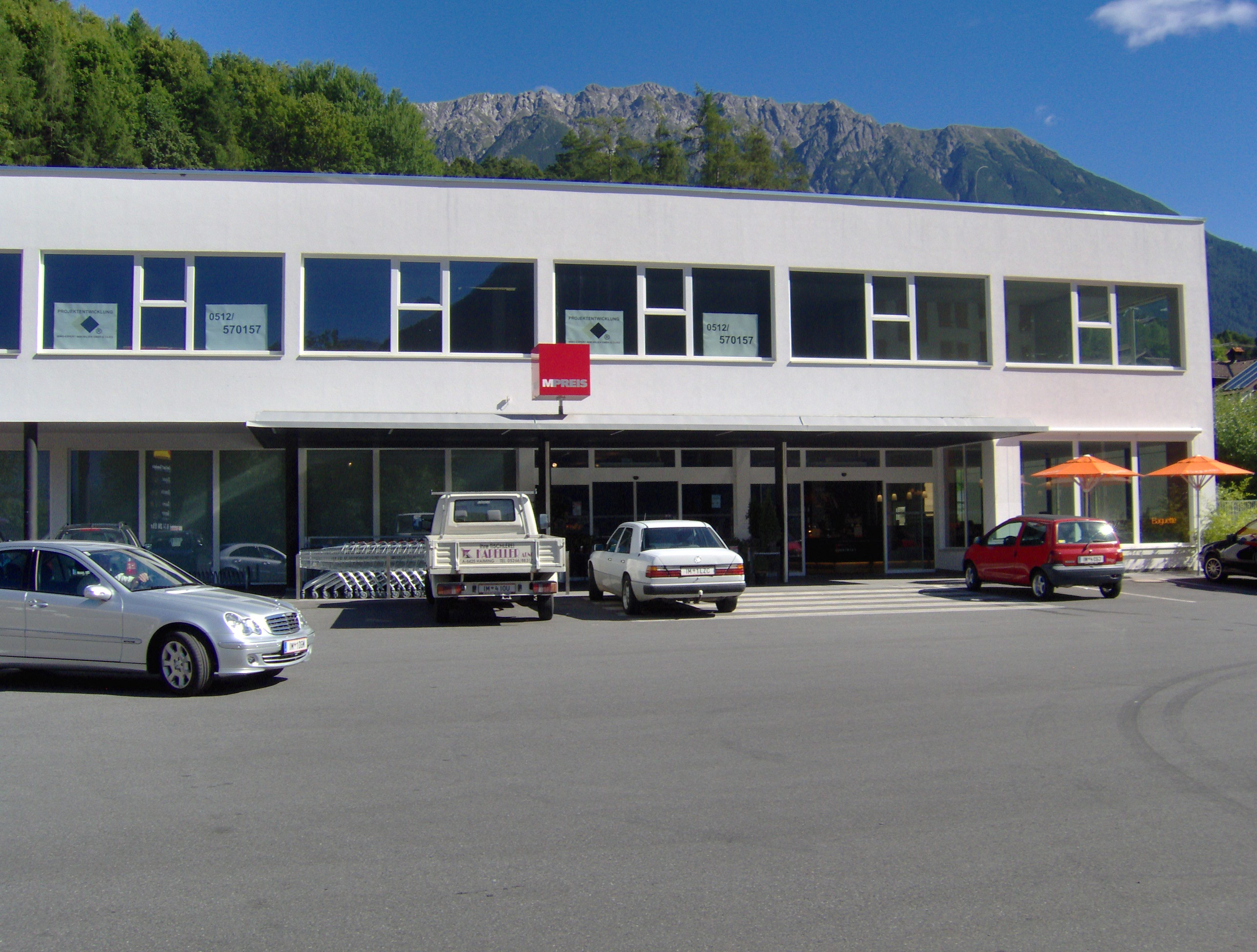 MPreis supermarket in Tarrenz, Tyrol, Austria